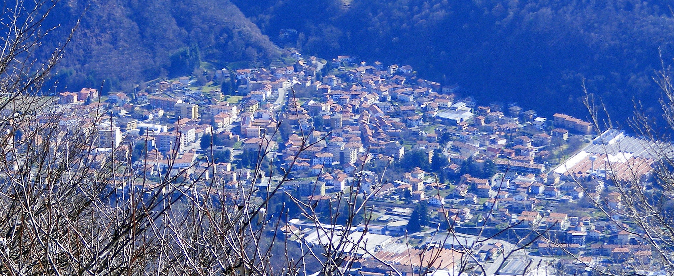 Quarona (VC, Italy): panorama from Mount Tovo (1.386 m)